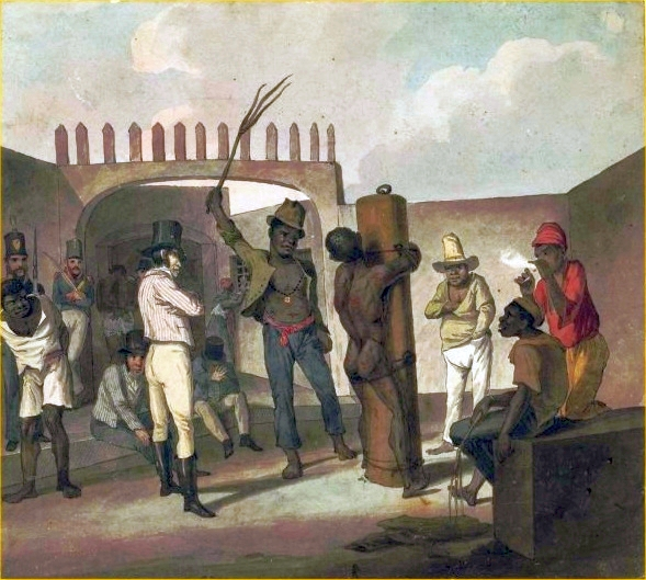 Punishing negros at Cathabouco (i.e. Calabouço, today place of Museu Histórico Nacional), in Rio de Janeiro, 1822. Watercolour; 23.6 x 26.3 cm.